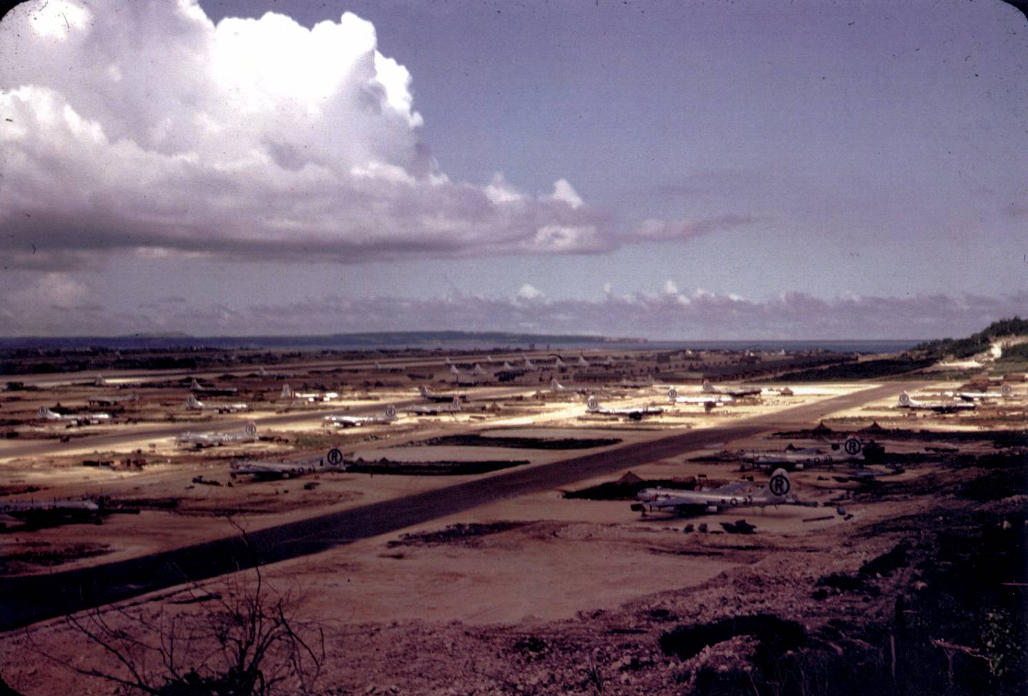 Tinan North Field shortly before the bombings of Hiroshima and Nagasaki.